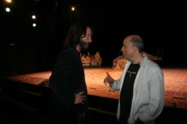 Vladimir Bouchler and Keanu Reeves on the rehearsal of "The Cherry Orchard" by Anton Chekhov in Scotland (2009), where Keanu Reeves came within his research trip for the movie "Henry's crime", where his character Henry performs role of Lopakhin from iconic Chekhov's play.